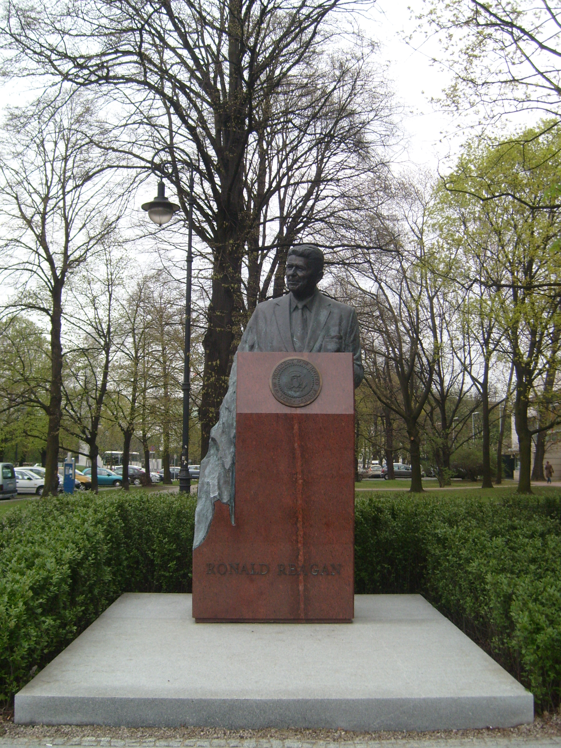 Ronald Reagan Monument in Warsaw, Poland.